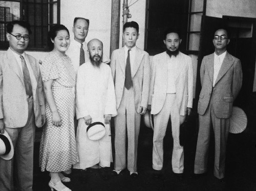 Release of prisoners from the "Seven Gentlemen Incident" Suzhou July 31, 1936 (Wang Zaoshi, Shi Liang, Zhang Naiqi, Shen Junru, Sha Qianli, Li Gongbu, Zou Taofen)